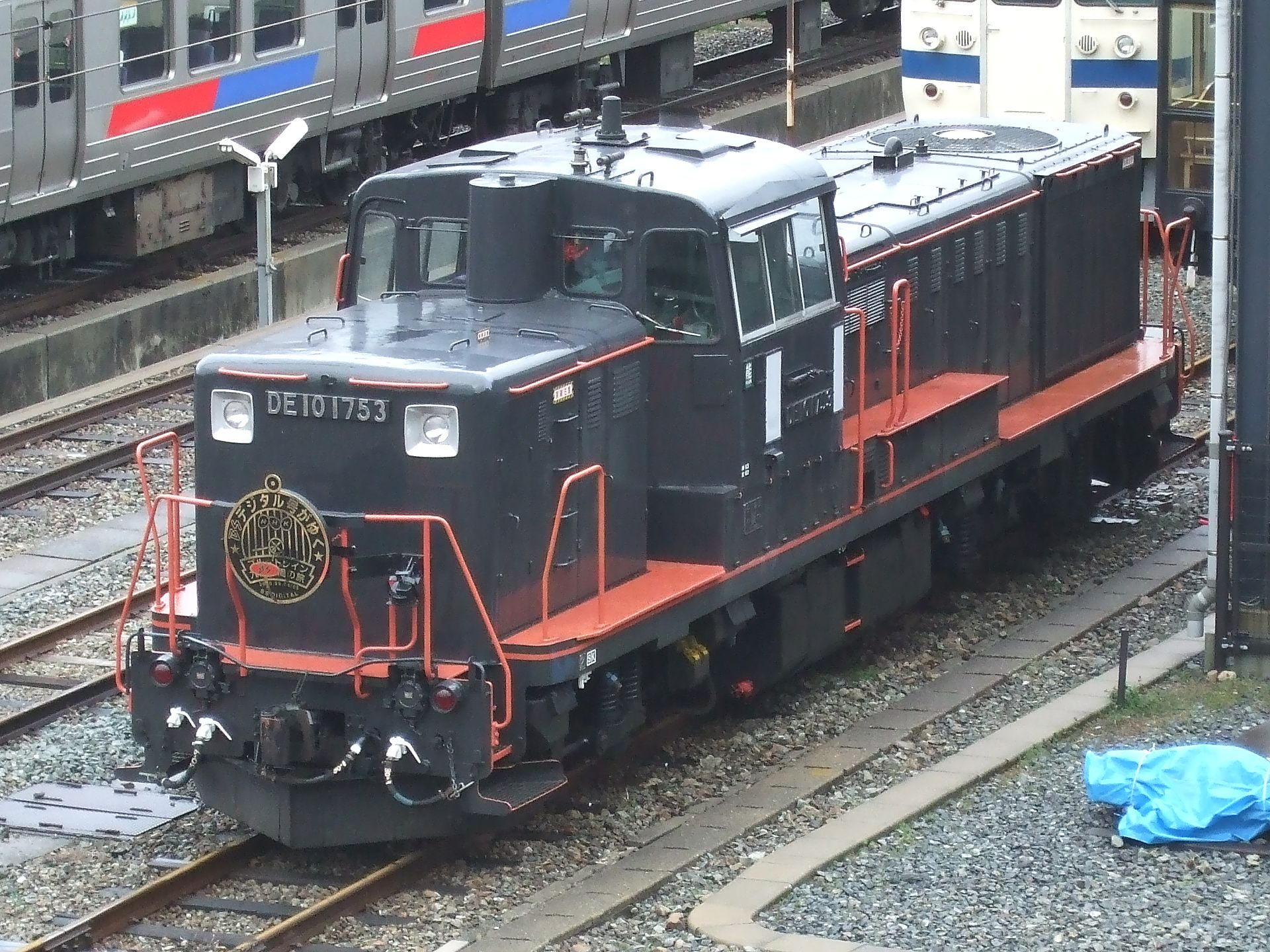 Company:JR Kyushu Type:DL Class DE10 Number:DE10 1753 Location:Mojiko Yard, Moji-ku, Kitakyushu City, Fukuoka, Japan.